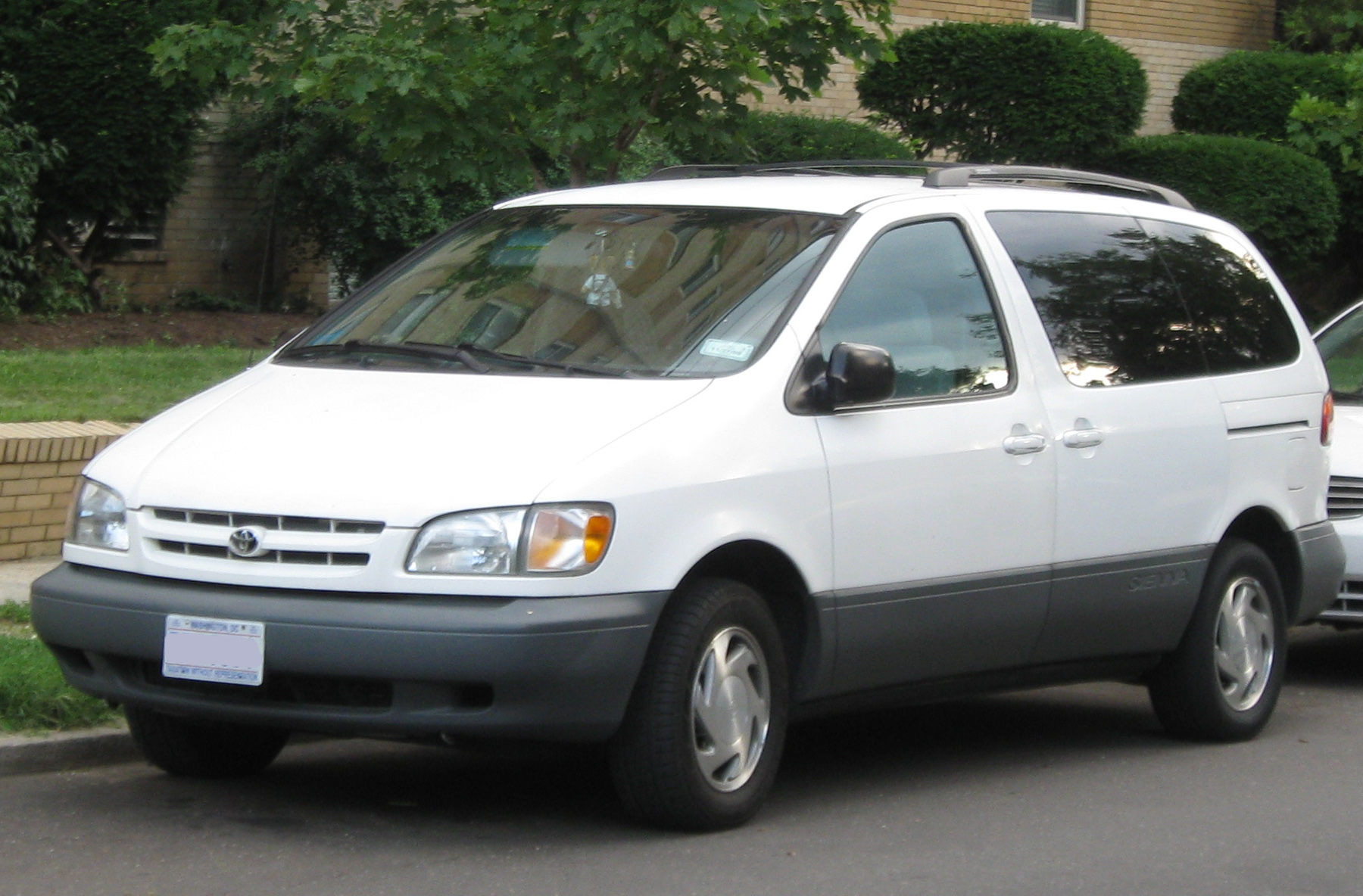 1998-2000 Toyota Sienna photographed in Washington, D.C., USA.